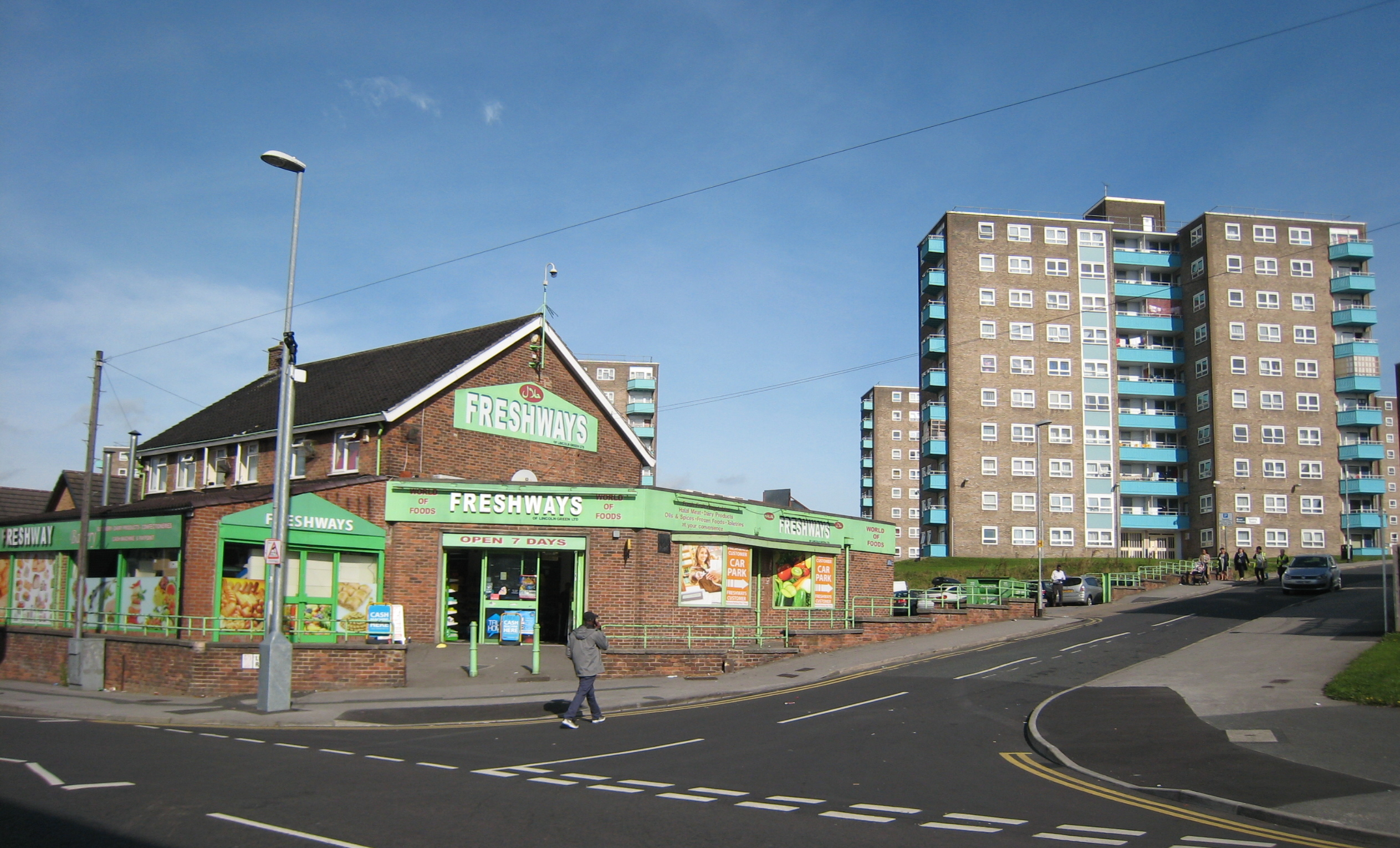 Lincoln Green Road junction with Lindsey Road, Lincoln Green, Leeds. Supermarket (formerly a Co-op) to left, tower blocks on the right.